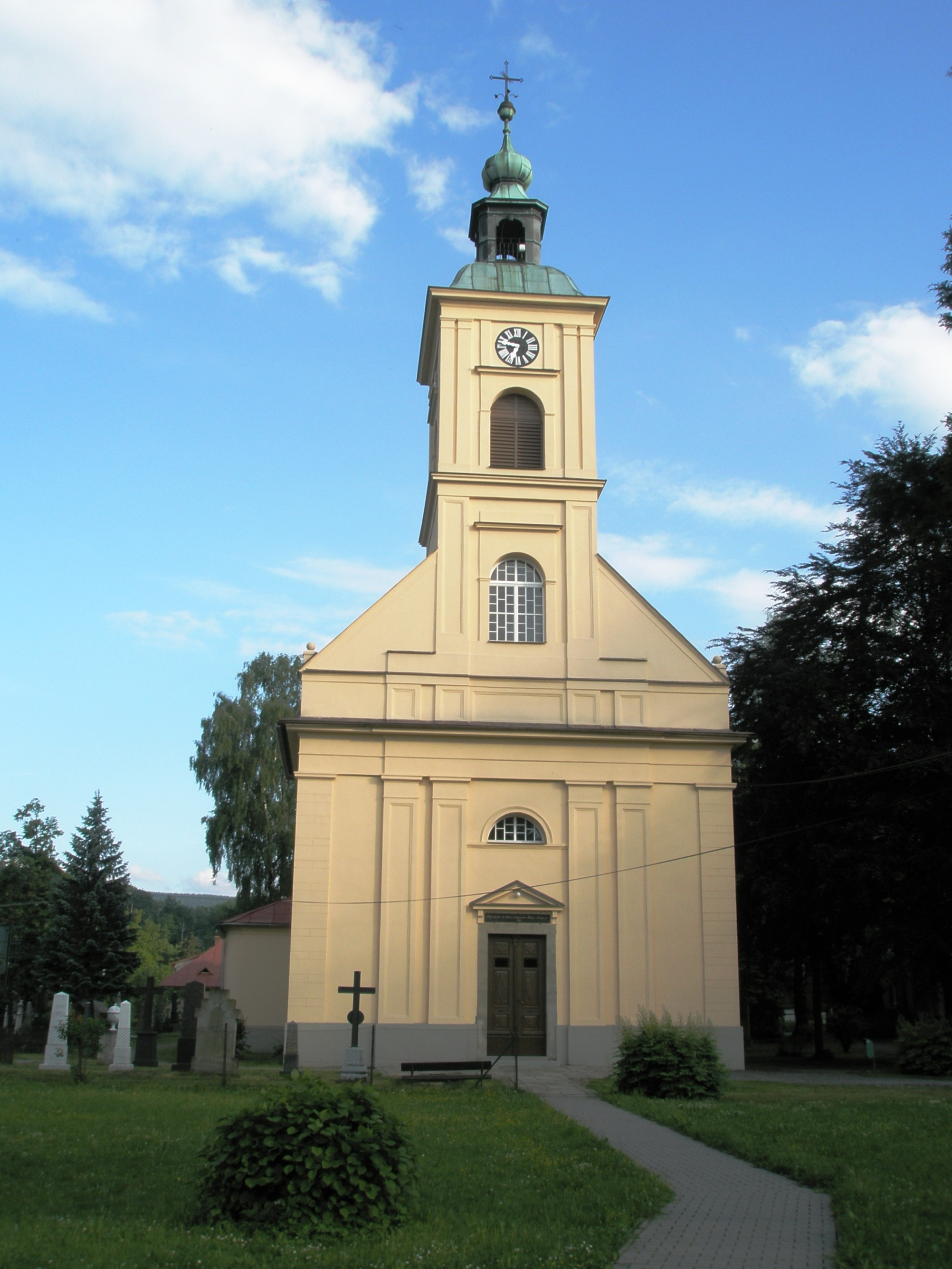 Lutheran Church in Komorní Lhotka, Frýdek-Místek District, Czech Republic